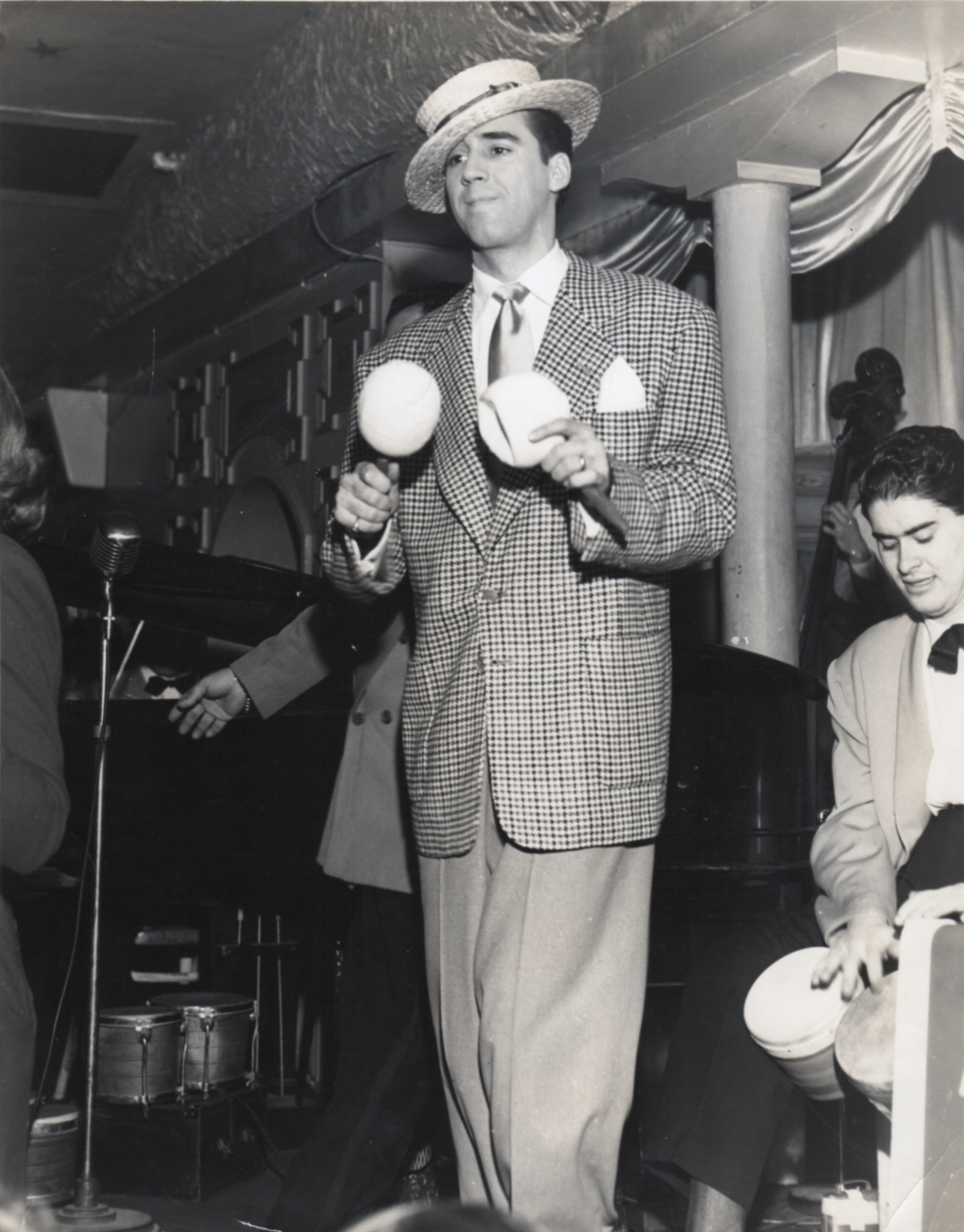 Pupi Campo wearing his iconic straw hat and fronting the band playing the maracas